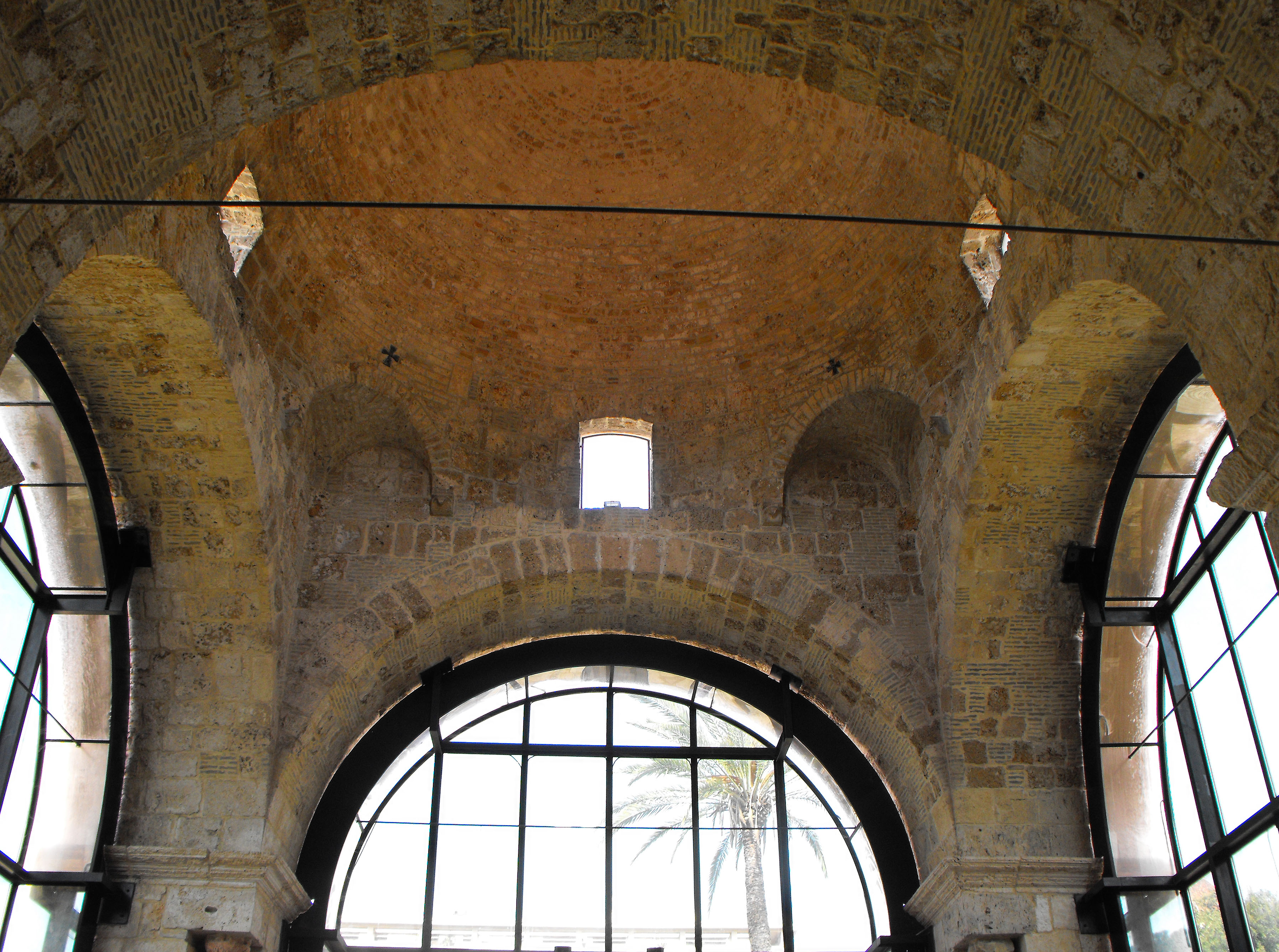 dome of San Saturnino Basilica (5th century) - Cagliari